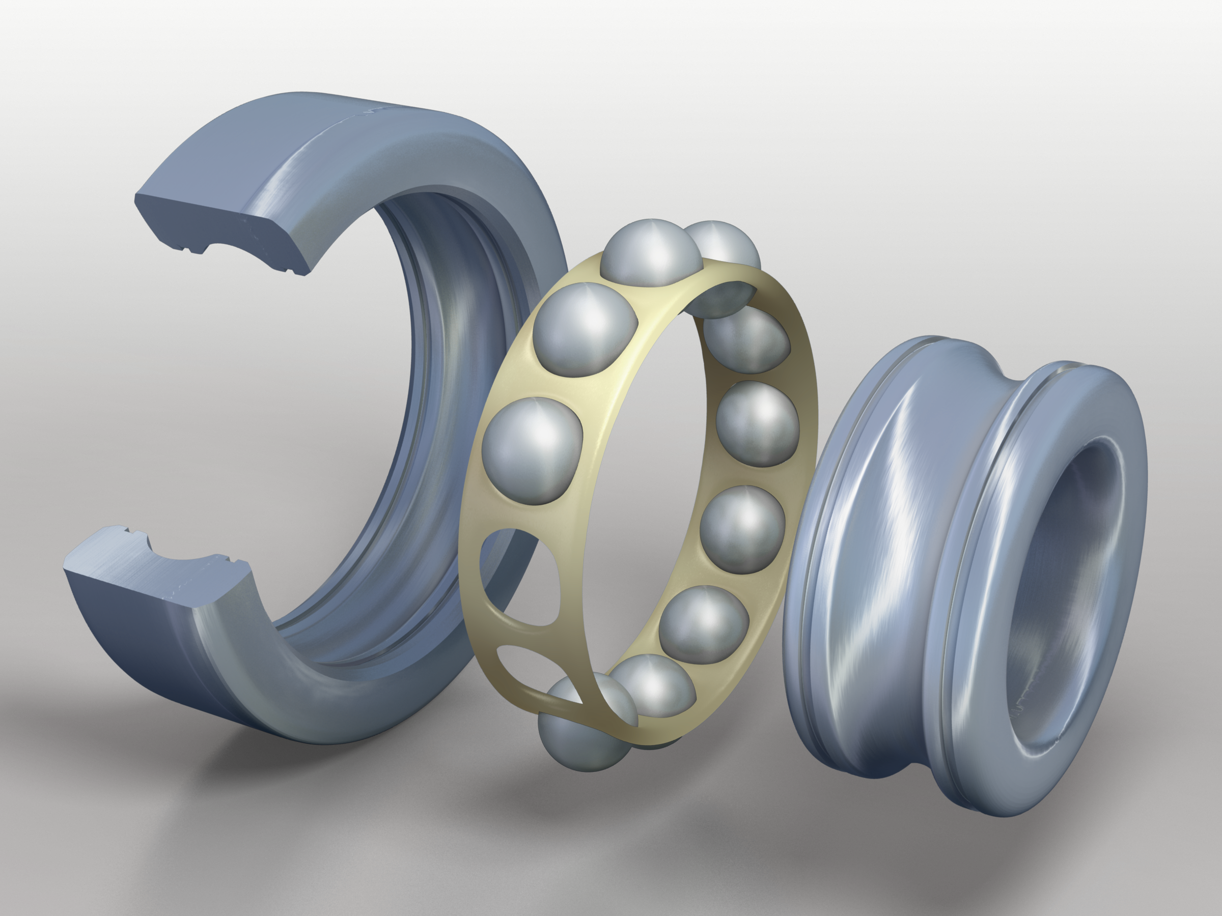 Seperated view of a rolling-element bearing.